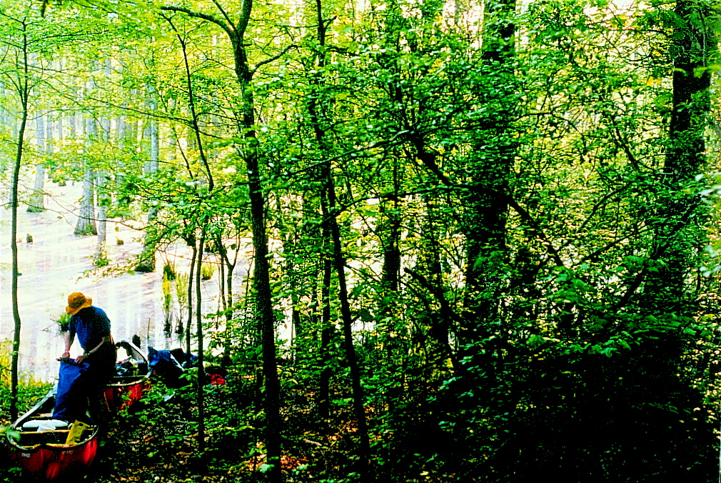 A paddler prepares his canoe at the "provisional" head of navigation of the Wolf River (near its confluence with Tubby Creek) in the upper part of the Holly Springs National Forest in Benton County, Mississippi. It is considered the provisional head of navigation because area canoe enthusiasts regularly attempt to discover put-ins upstream of this location. This was taken at the beginning of Day 2 of the first known full descent of the Wolf River, undertaken by members of the Wolf River Conservancy. Day 1 was all hiking and wading 18 miles along Wolf from its source at Baker's Pond (also in the Holly Springs National Forest). *The river flows north from here into West Tennessee's Fayette County and then into Shelby County, where it spills into the Mississippi River in downtown Memphis.